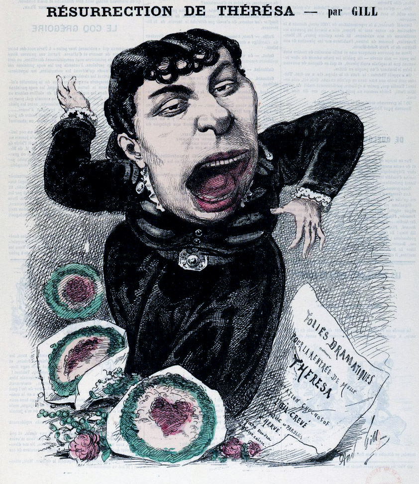 Caricature of French singer Thérésa